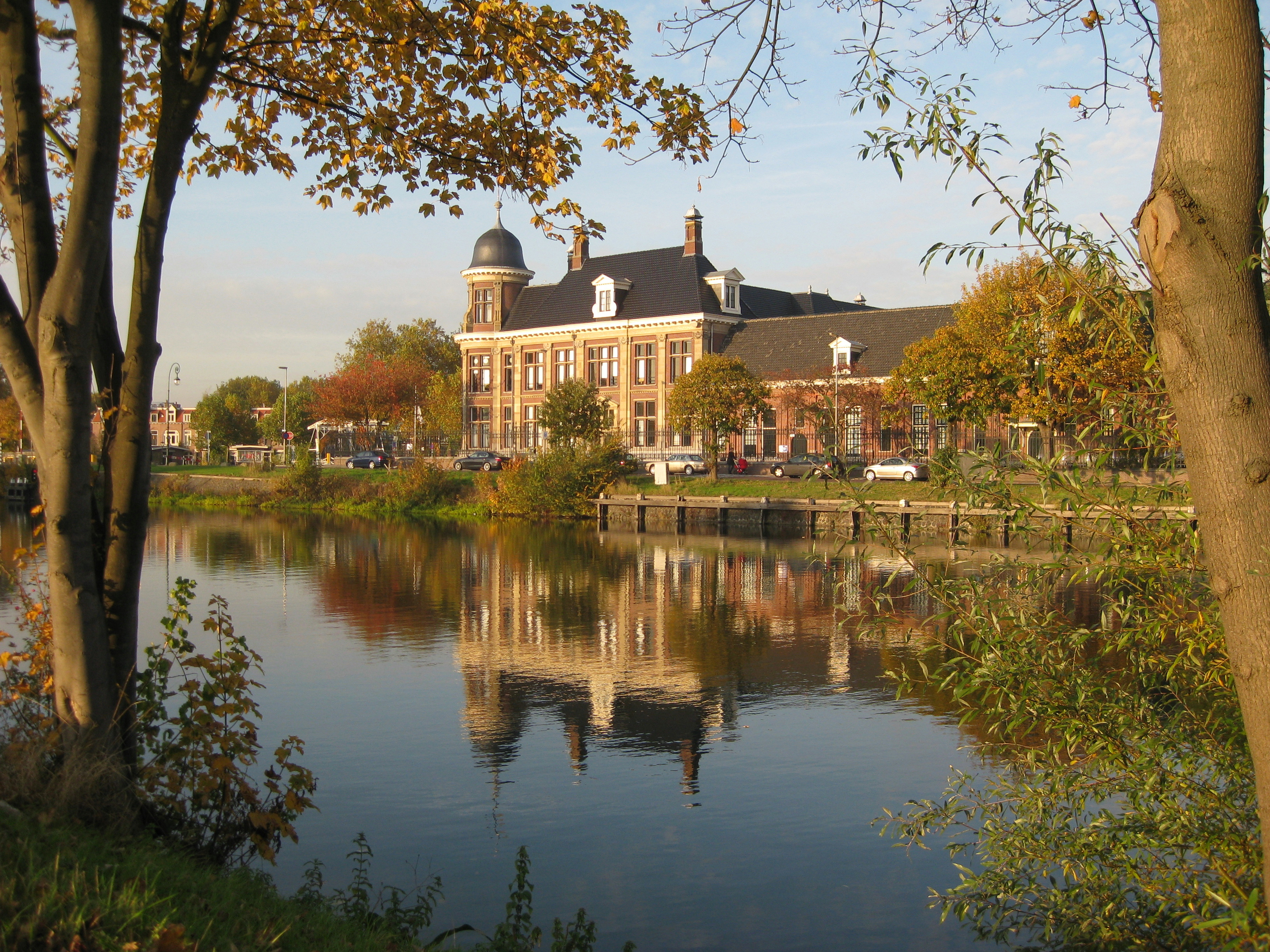 The Merwede canal, near the Royal Mint, Utrecht